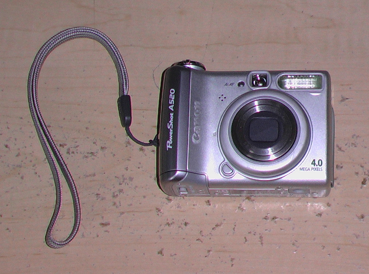 This is the Canon PowerShot A520 digital camera.